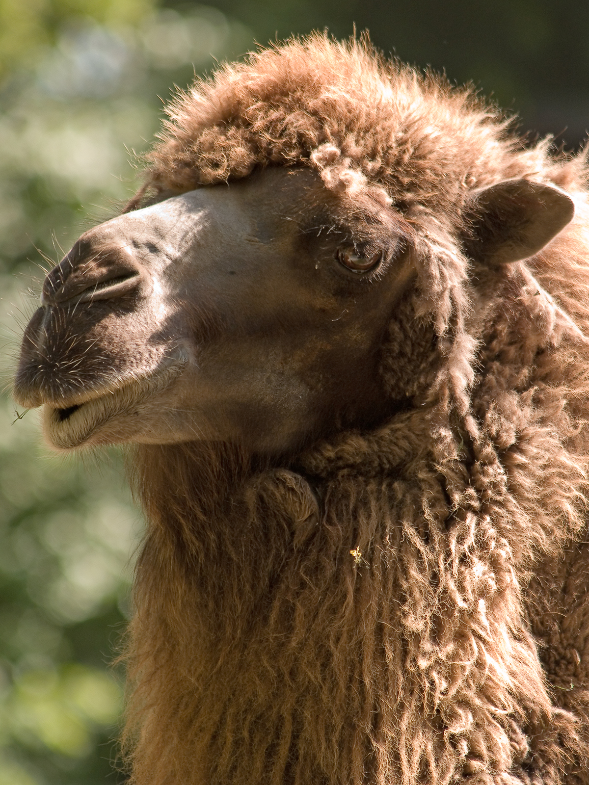 Portrait of a Lama